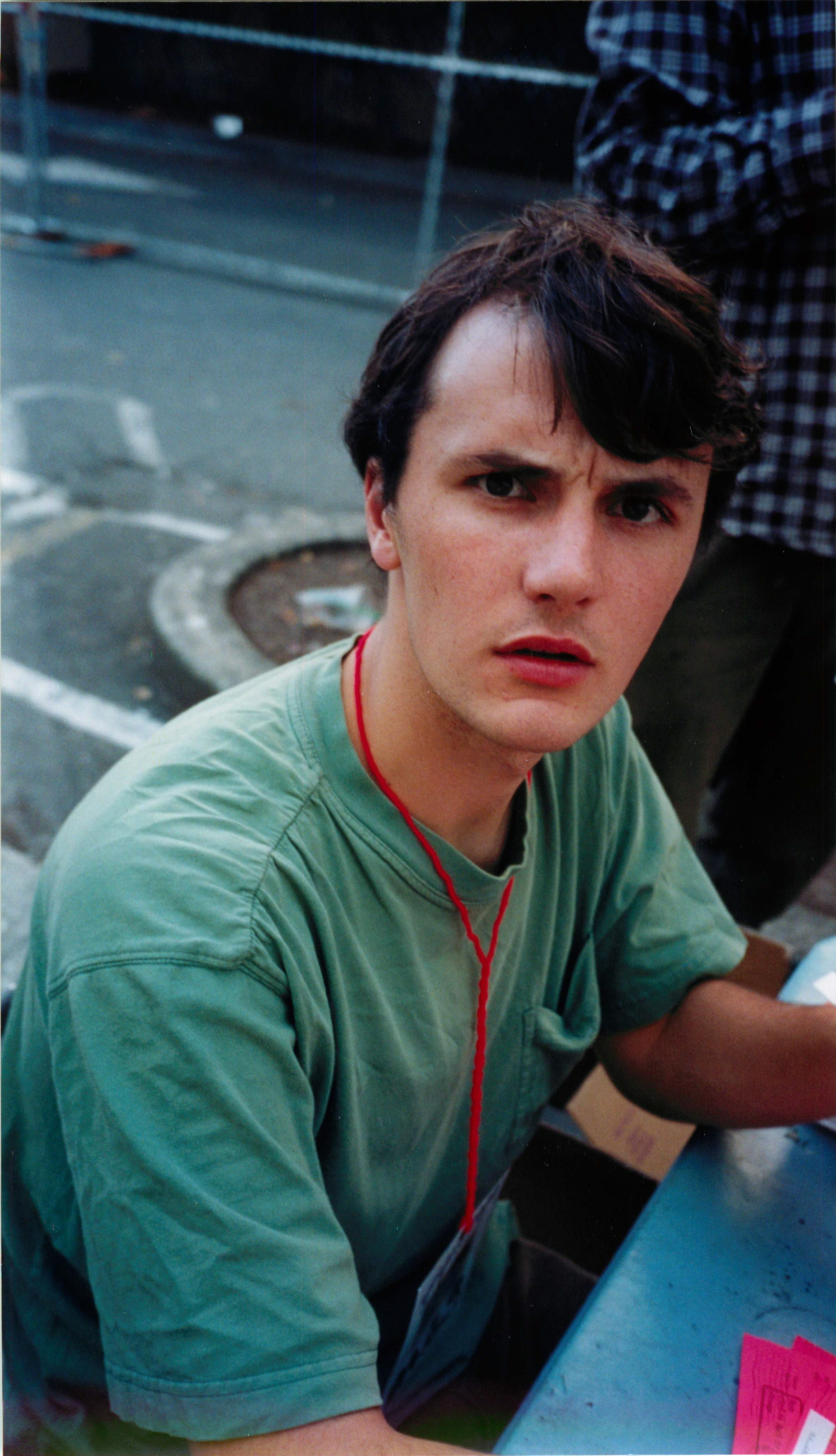 Phil Elverum in Olympia, Washington